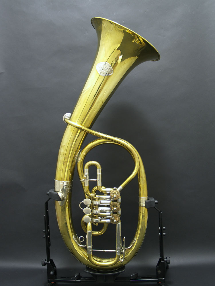 Tenorhorn in B (German) Alexander 145